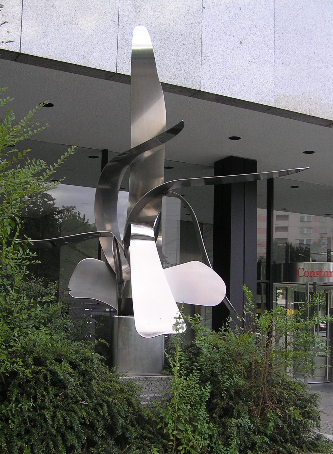 Sculpture of Eila_Hiltunen, "Flames", 1981 Berlin, Crossing Schillstraße/Kurfürstenstraße